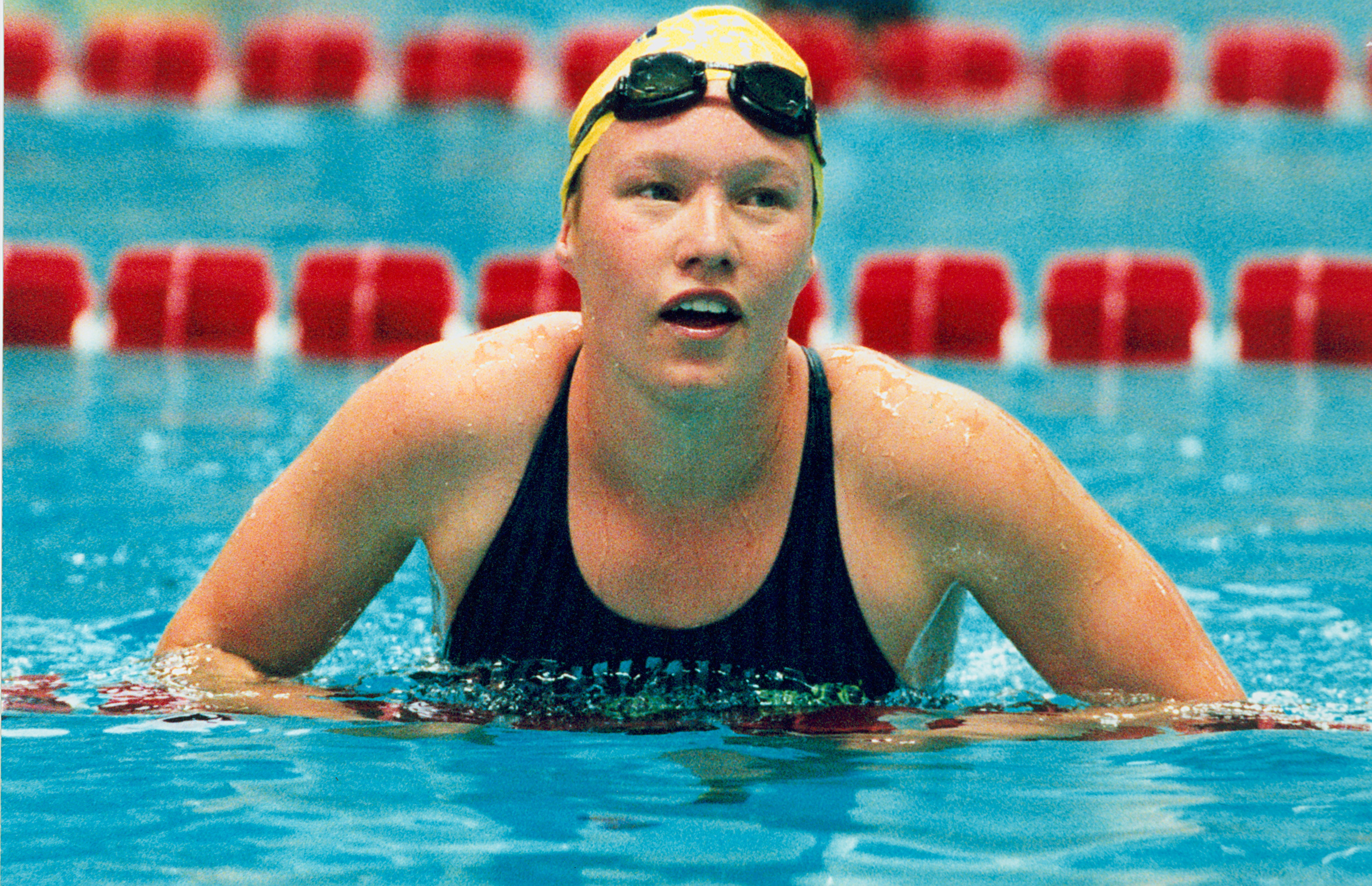 Australian S9 swimmer Melissa Carlton holds onto the lane ropes after a race at the 1996 Atlanta Paralympic Games